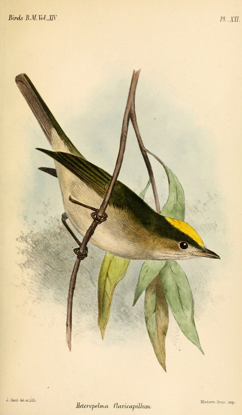 Heteropelma flavicapillum = Xenopipo flavicapilla, Yellow-headed Manakin